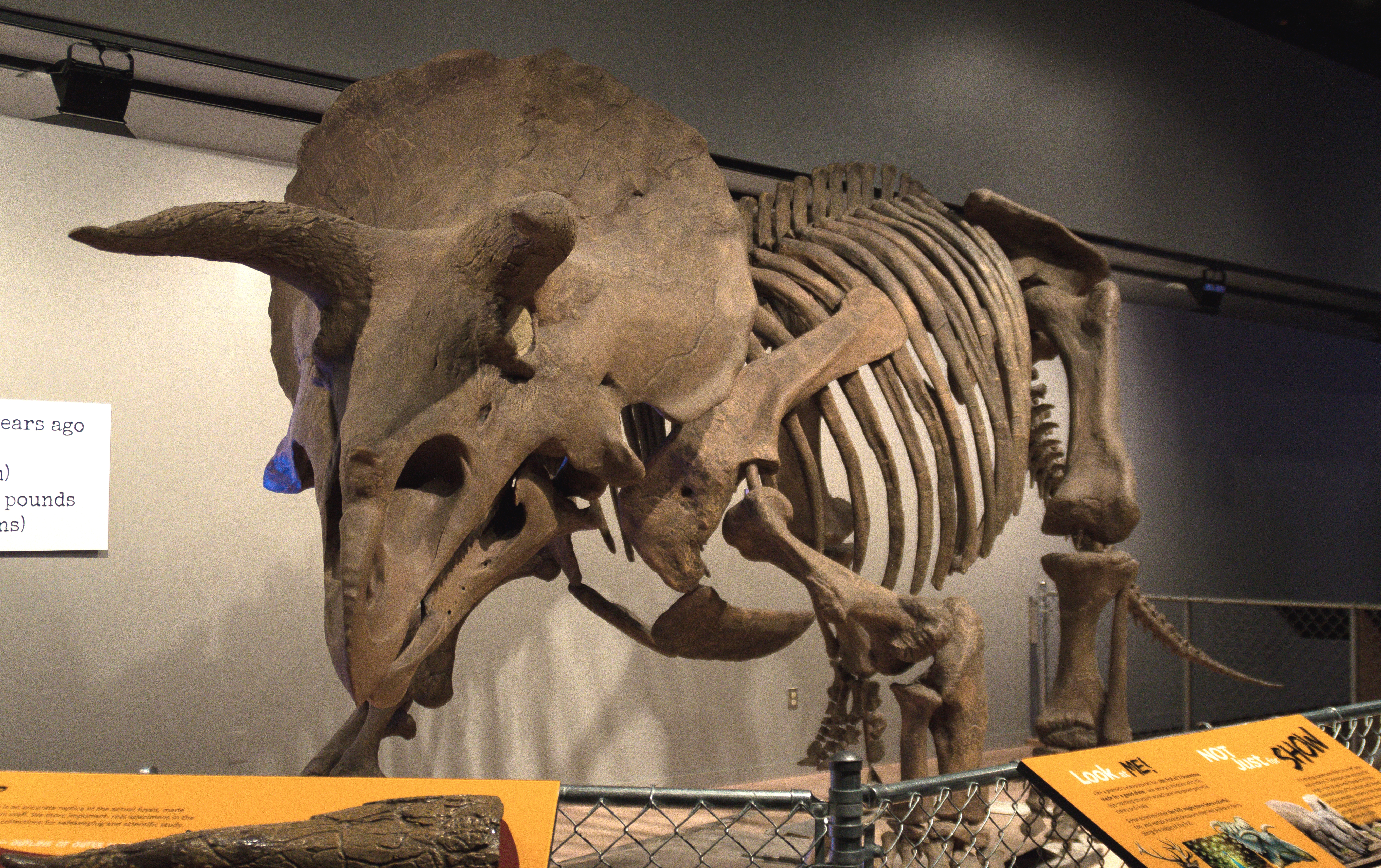 Mounted specimen of a Triceratops (USNM 4720) at the Smithsonian's National Museum of Natural History, USA.